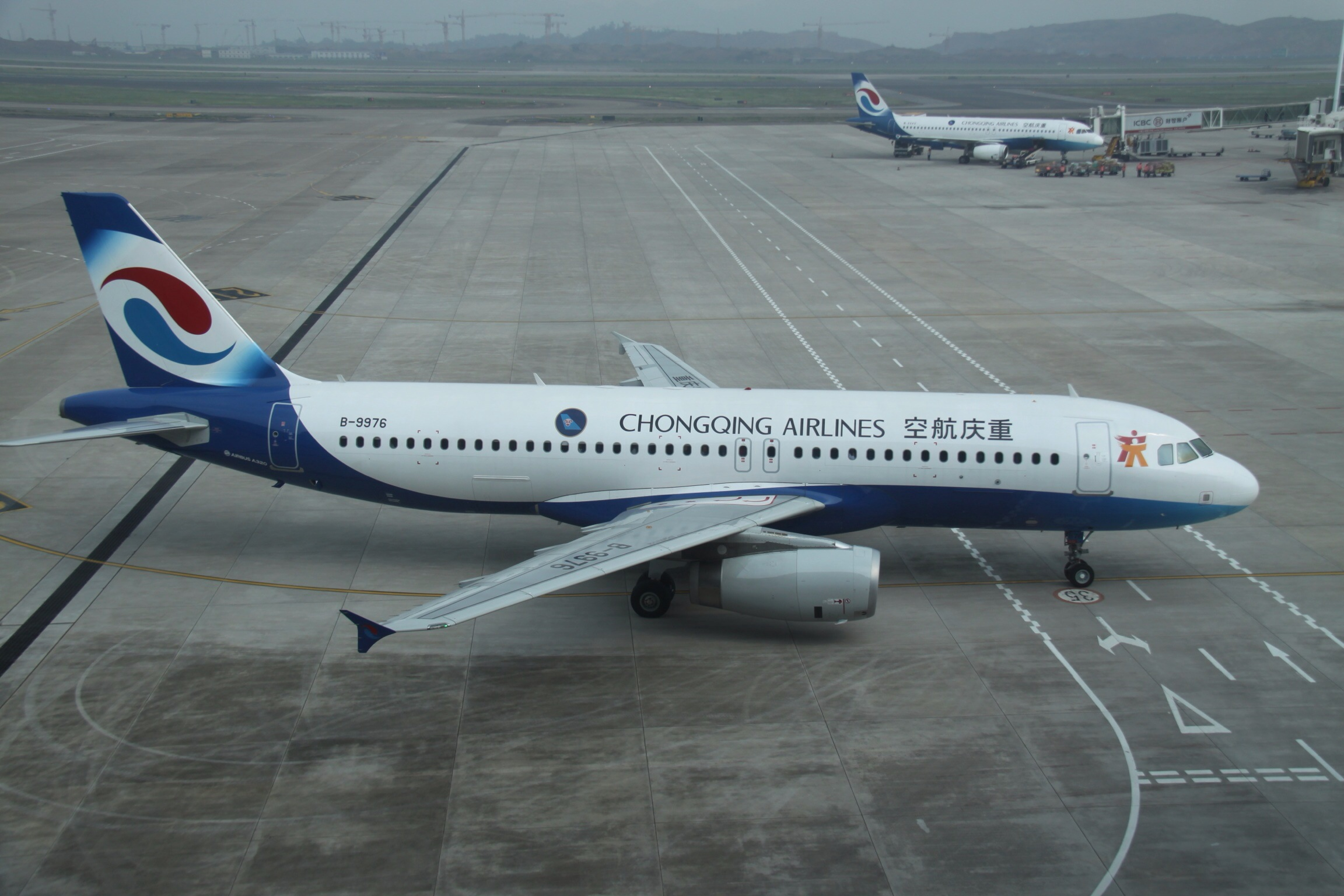 At Chongqing Jiangbei International Airport